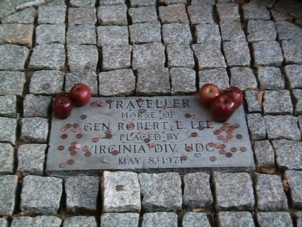 Traveler - Horse of General Robert E. Lee